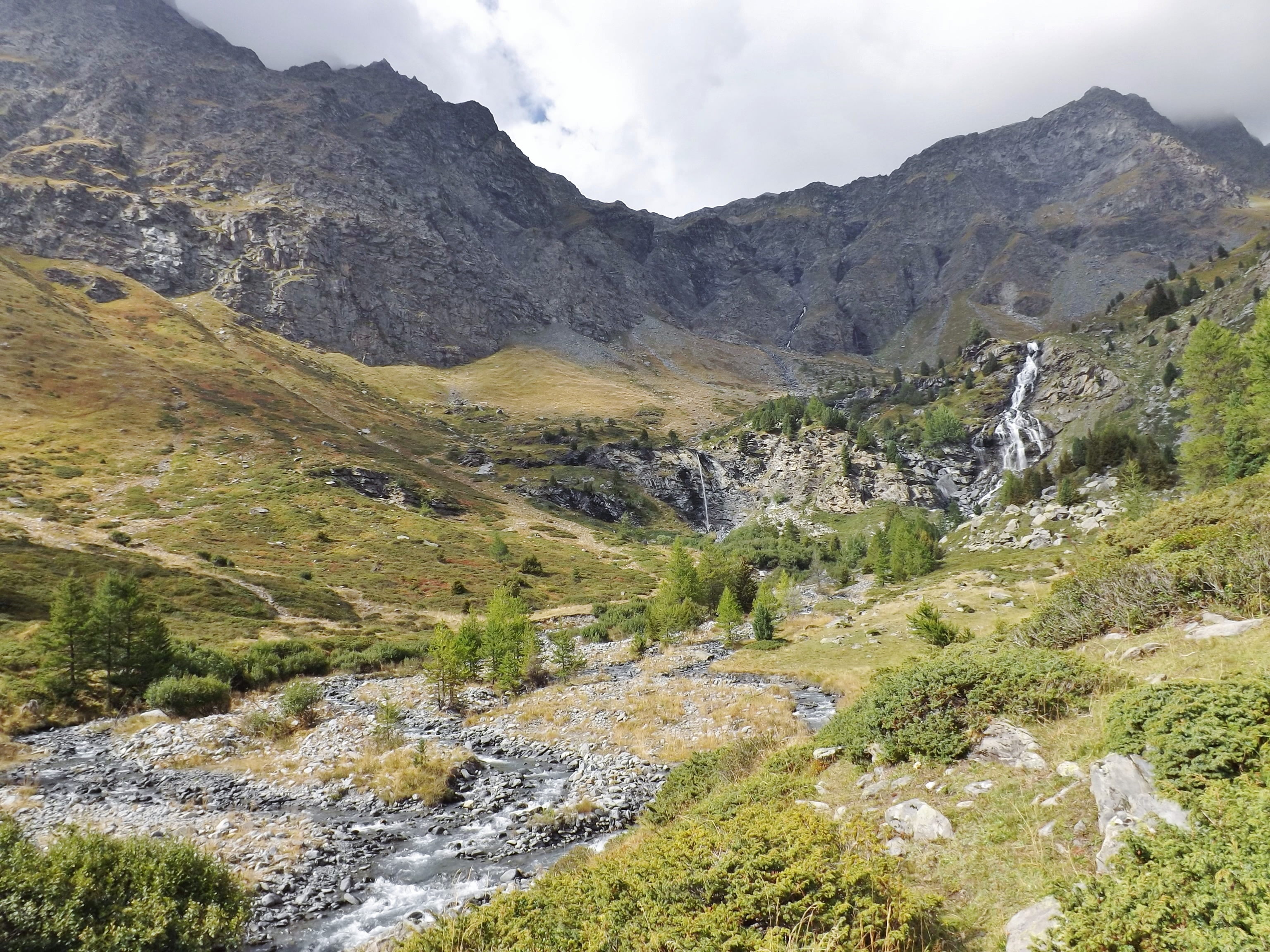 Sight of the Saint-Bernard stream, on the heights of Modane and Saint-André (on the other side), at the foot of Polset peak, at the South of the Vanoise national park, in Savoie, France.